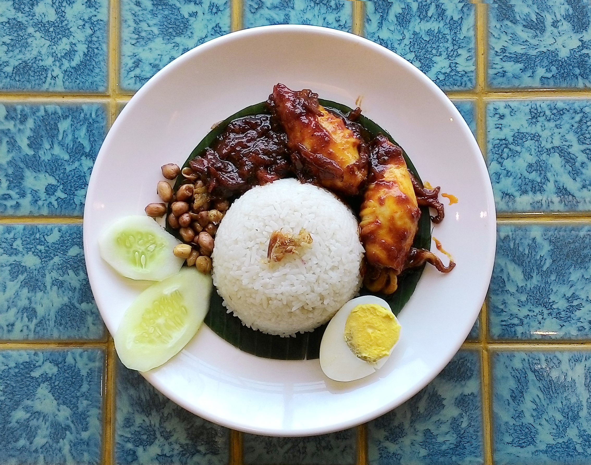 Nasi lemak (Malay fragrant coconut rice) served with sambal cumi (squid in chili sauce), sambal teri (sambal with anchovy), teri kacang (peanuts and salted ancovy), half boiled egg, and slices of cucumber. The rice is sprinkled with bawang goreng (fried shallot), served in a restaurant in Indonesia. Although this dish is popularly known as a national dish of Malaysia, it is also considered as a native dish in Riau Islands and Riau provinces in Indonesia, where it often served with spicy freshwater fish or seafoods (fish, shrimp or squid).